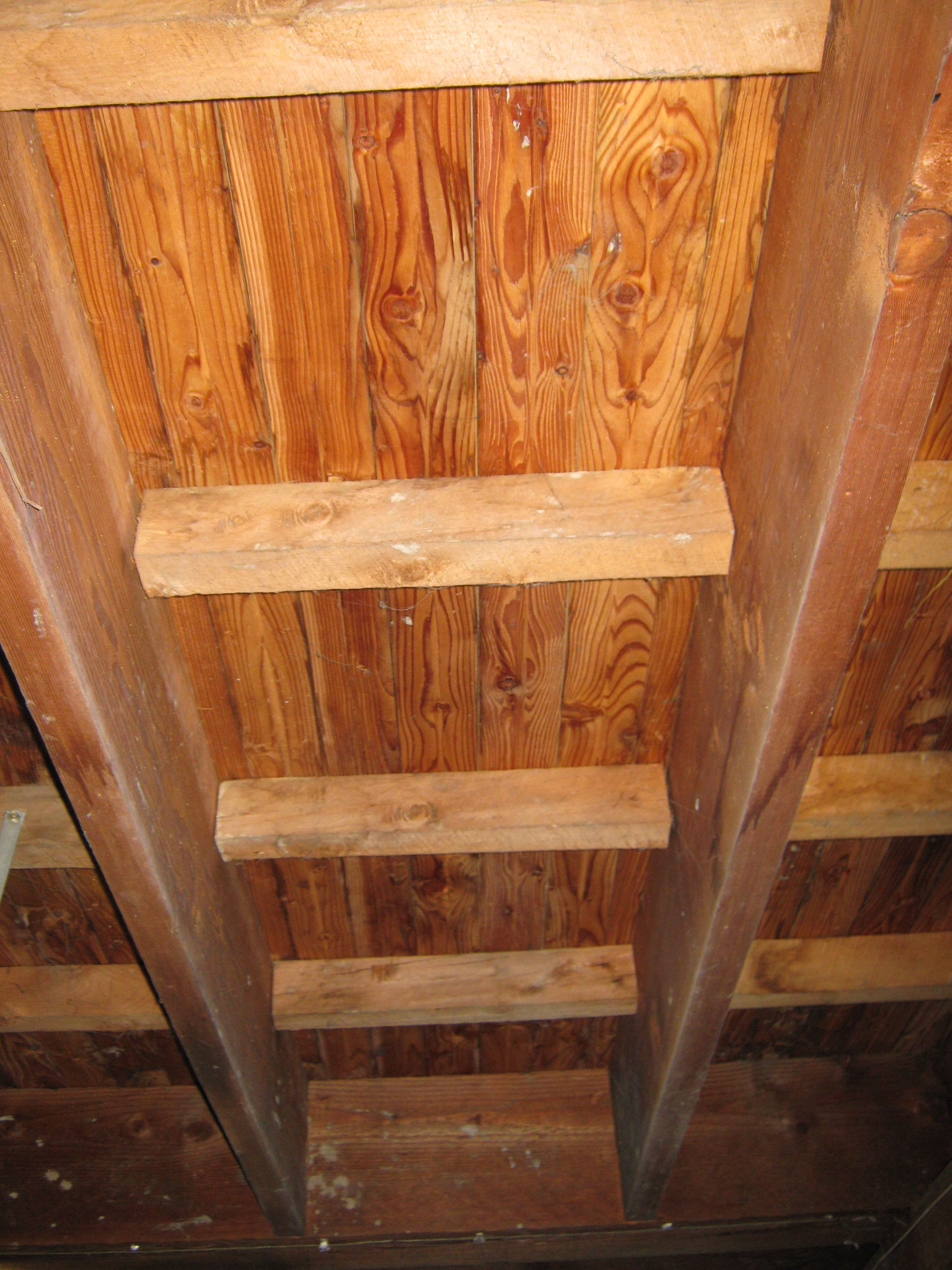 Marine Corps Timber transported to Auckland for Camp during WWII then donated for rebuilding Hawke Sea Scout Hall